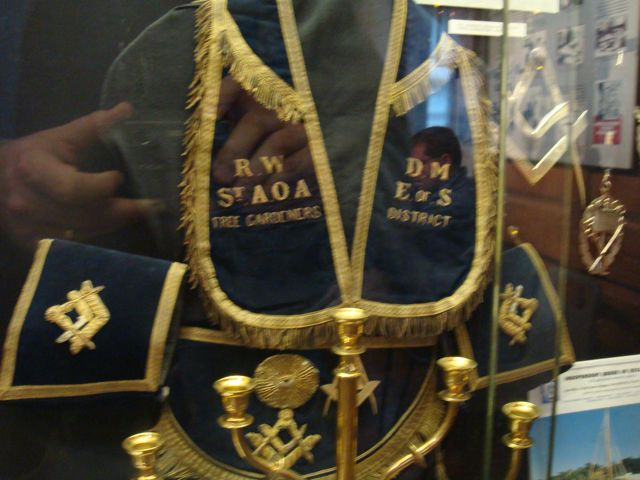 Free Gardner objects